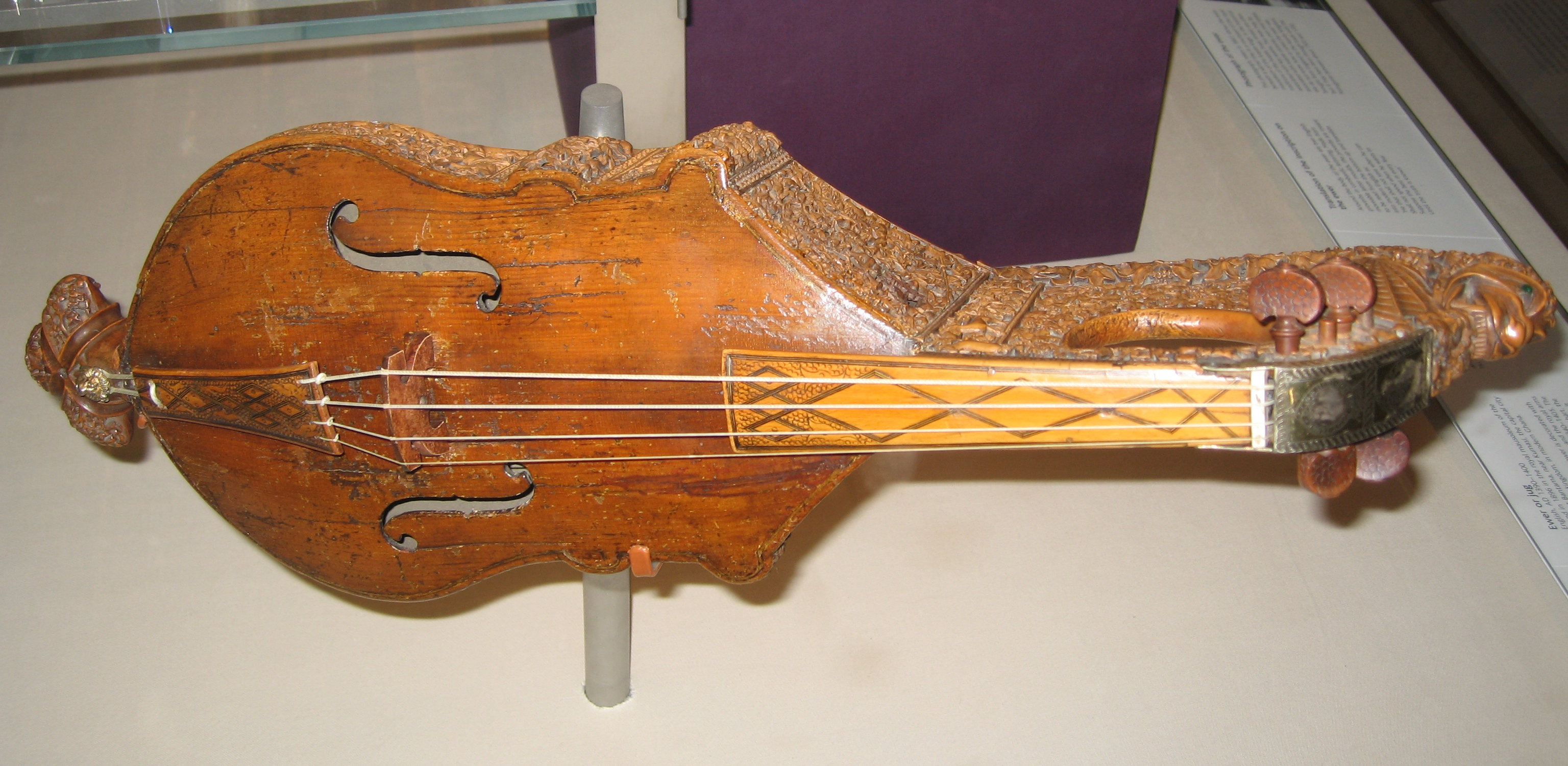 English citole in the British Museum, built around AD 1300, remodelled as a violin in the sixteenth century